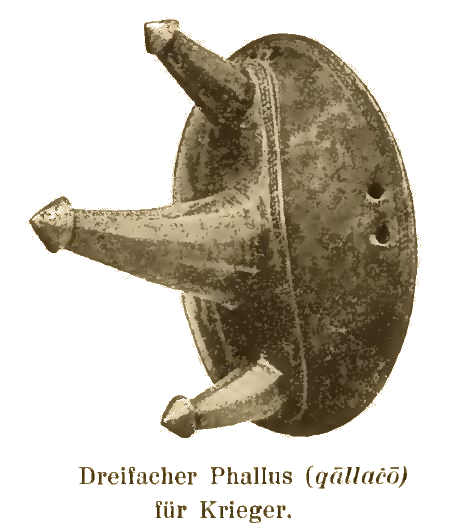 Triple phallic headgear made of bronze, Kaffa (17th century). Such headgear was awarded by the king of Kaffa to warriors who had proven themselves in battle or killed an elephant or lion. They were worn over the forehead and were kept in place by a bast string, which is missing here.